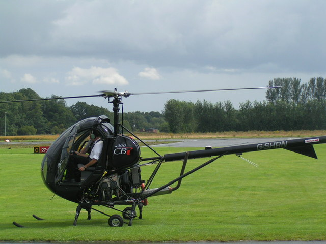 Shobdon airfield